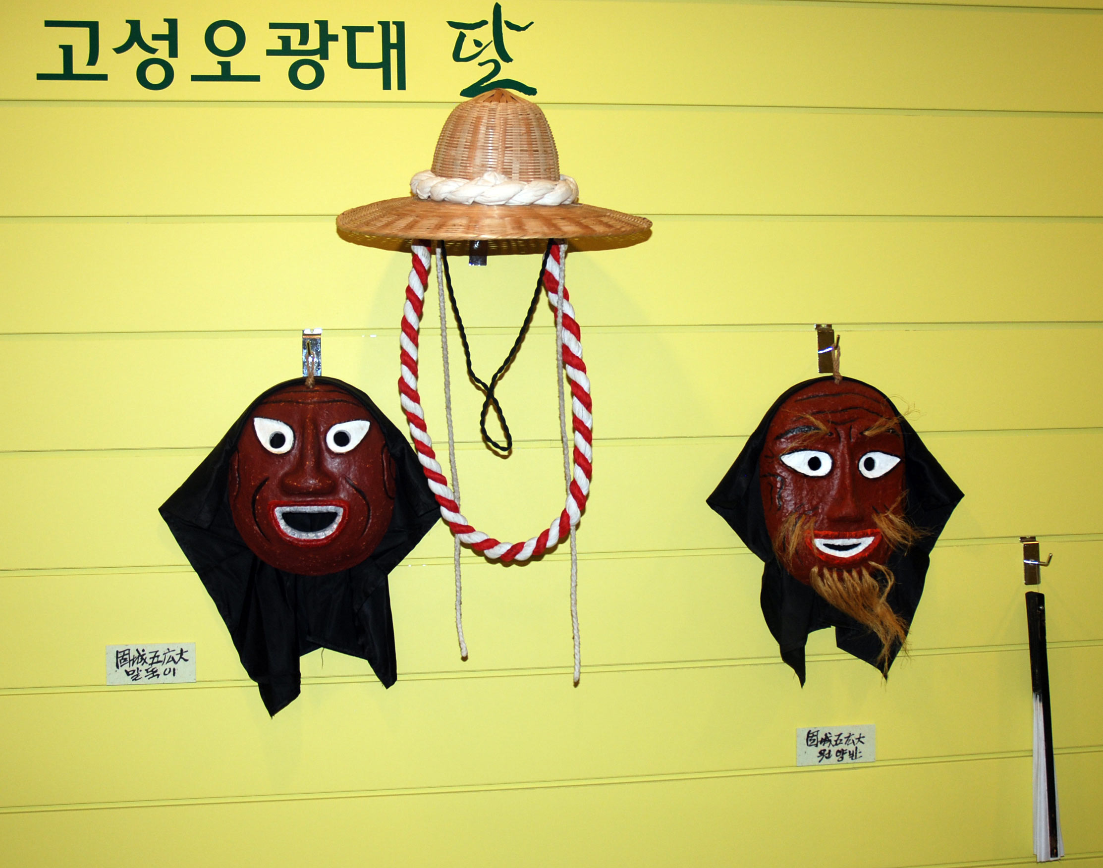 Okwangdae Mask, Kosung near Jinju(The National Jinju Museum)